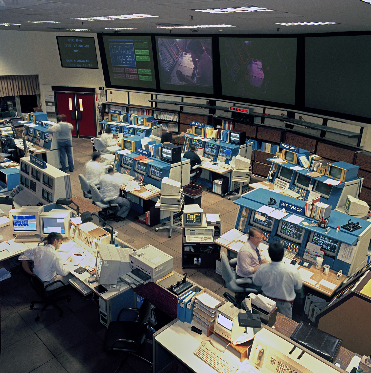 This is an image of the primary space flight operations room at the Jet Propulsion Laboratories, in Pasadena, California. The DSN (Deep Space Network) is maintained and operated by the Jet Propulsion Laboratories.